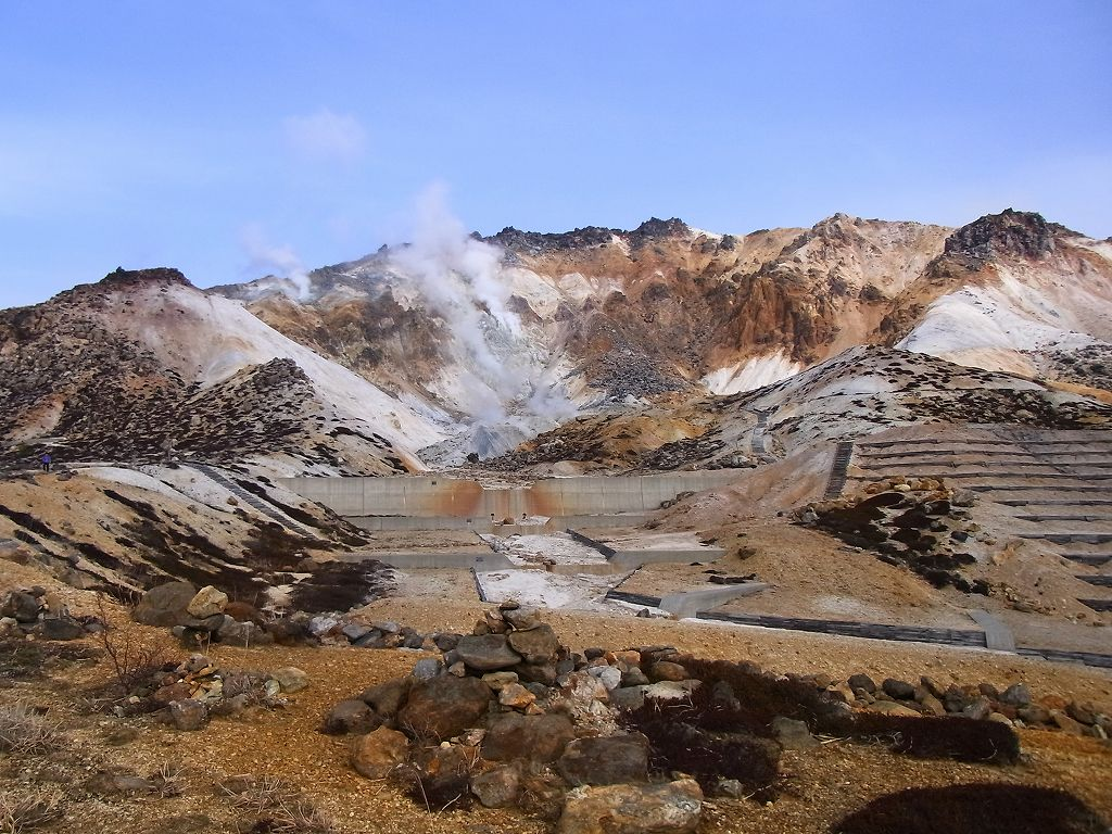 Mt. Esan, Hakodate, Hokkaido, Japan